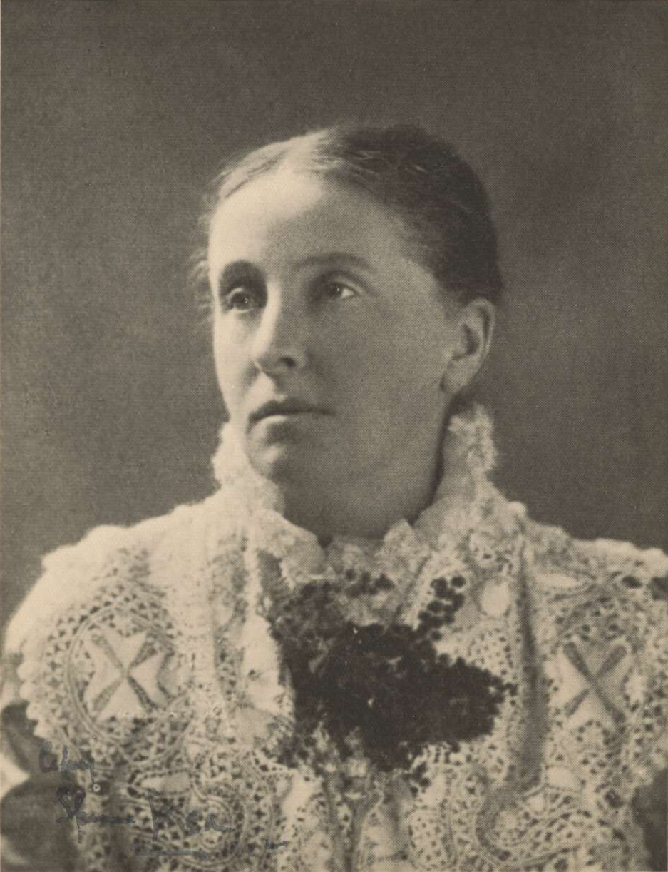 Photograph of Ada Cambridge by Spencer Shier c. 1920 from National Library of Australia ([1])